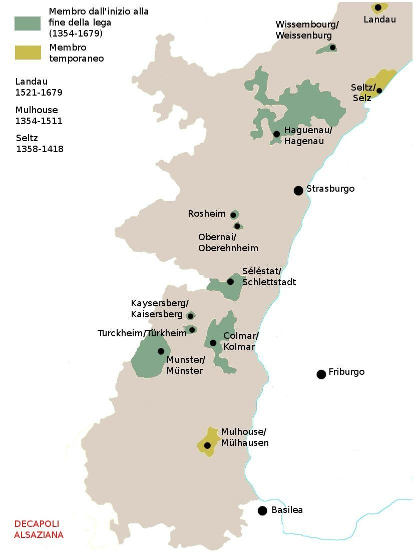 A map showing the Decapolis of Alsace (1354-1679); it is a correction of a same map created by me, changing three data that were wrong or incomplete: the ending date of the league (1679), and so the ending date for Landau (1679 too), and the add of the german form of the name of Seltz (Selz).